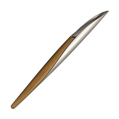 The Athens 2004 Olympics Torch